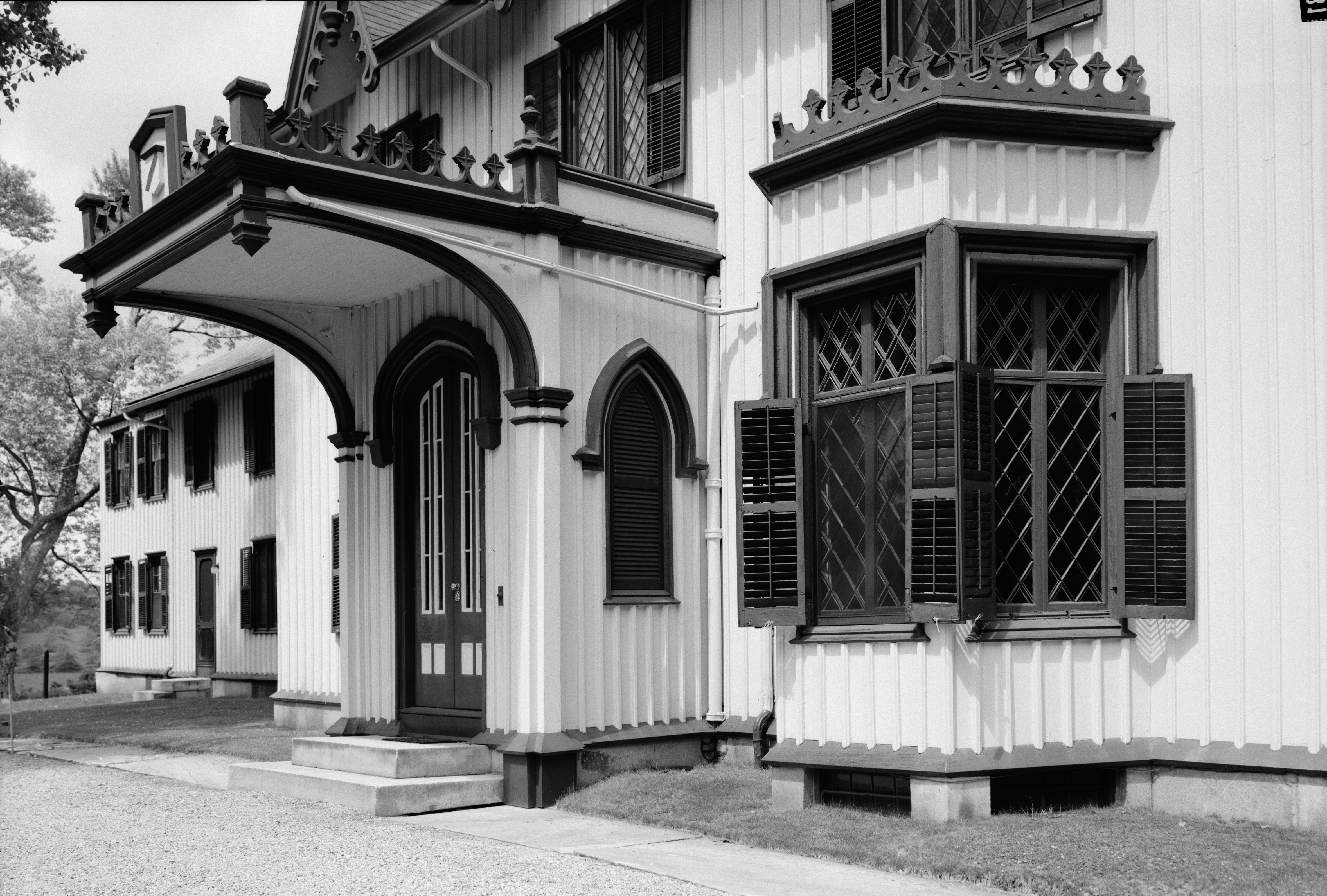 Roseland Cottage (Bowen Cottage), Woodstock, Connecticut, USA. Entryway details from exterior.